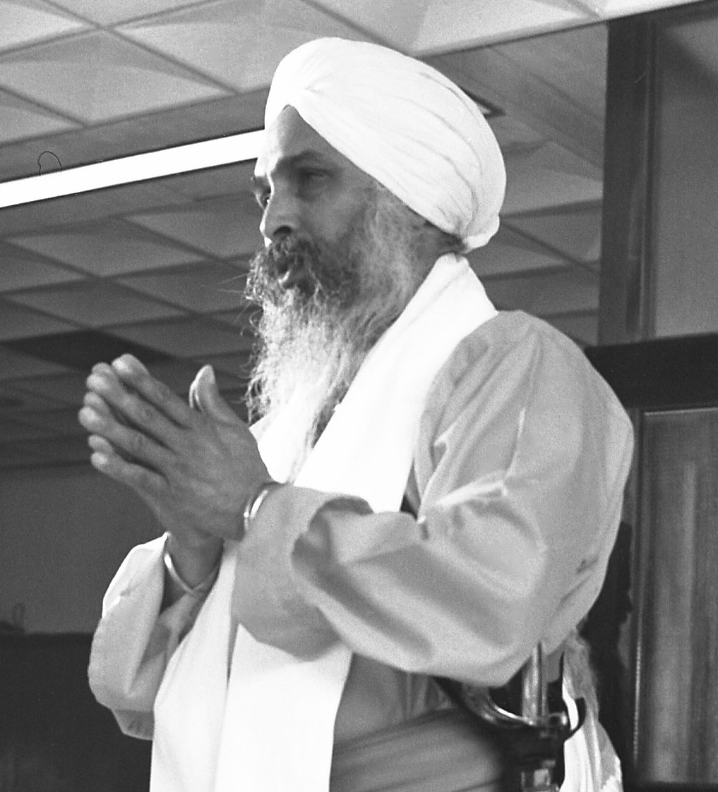 Sikhism Related Photo of Steel Kara - one of five articles of faith.